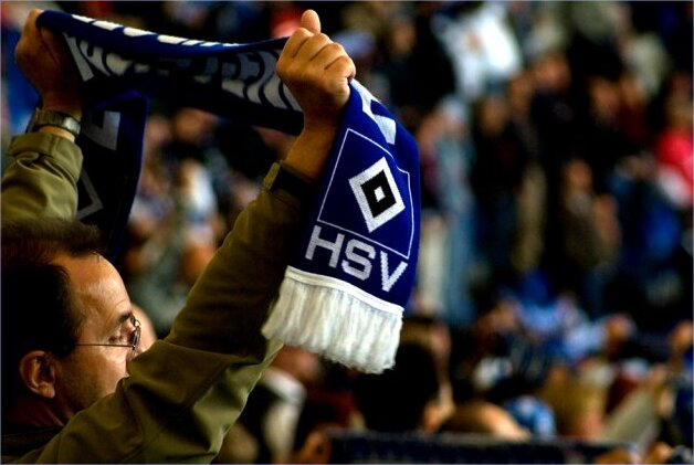 A fan of Hamburger SV holds aloft a team scarf at the first game of the 2007-08 season in the HSH Nordbank Arena